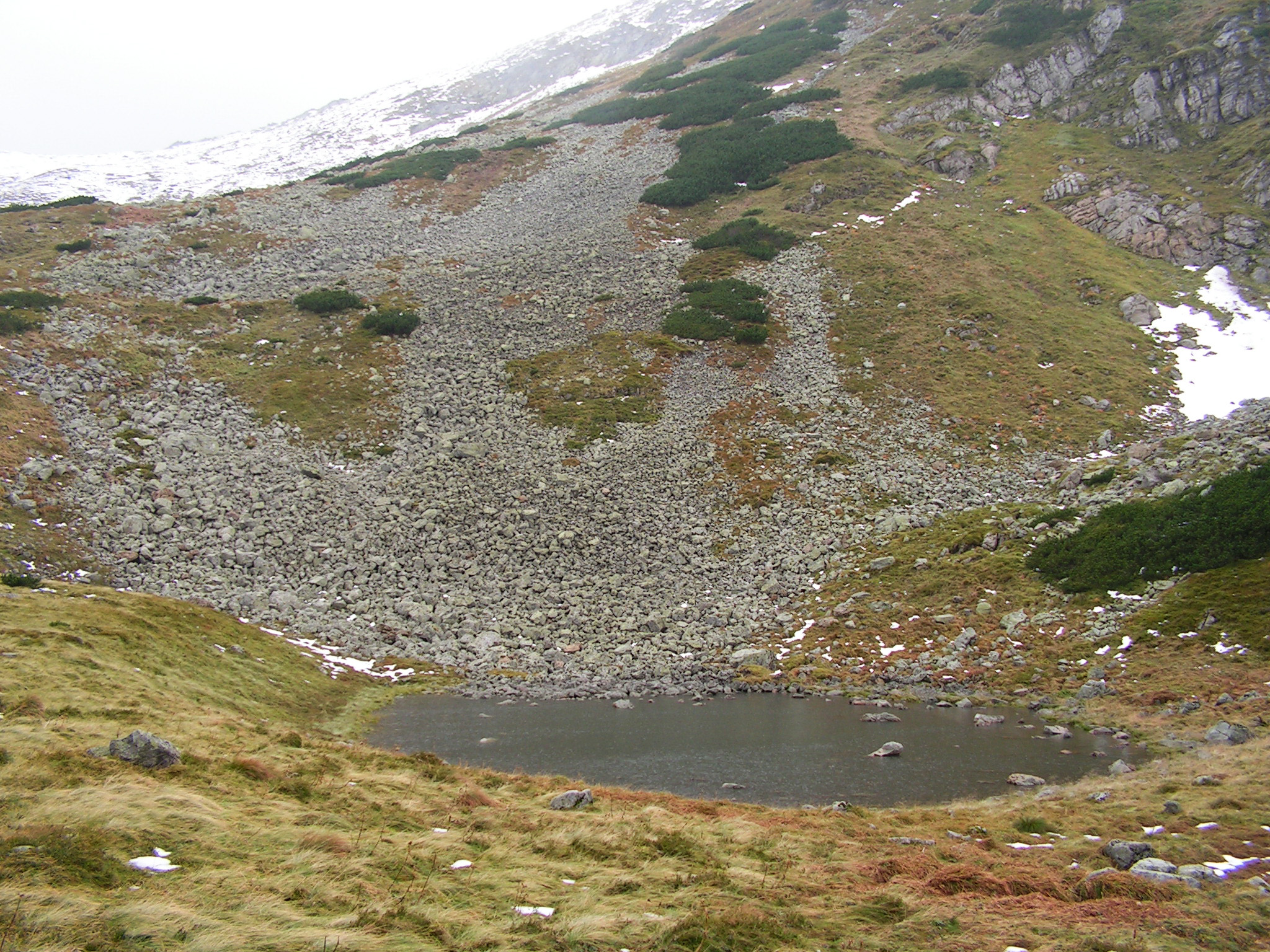 Tiché pleso in Široká dolina